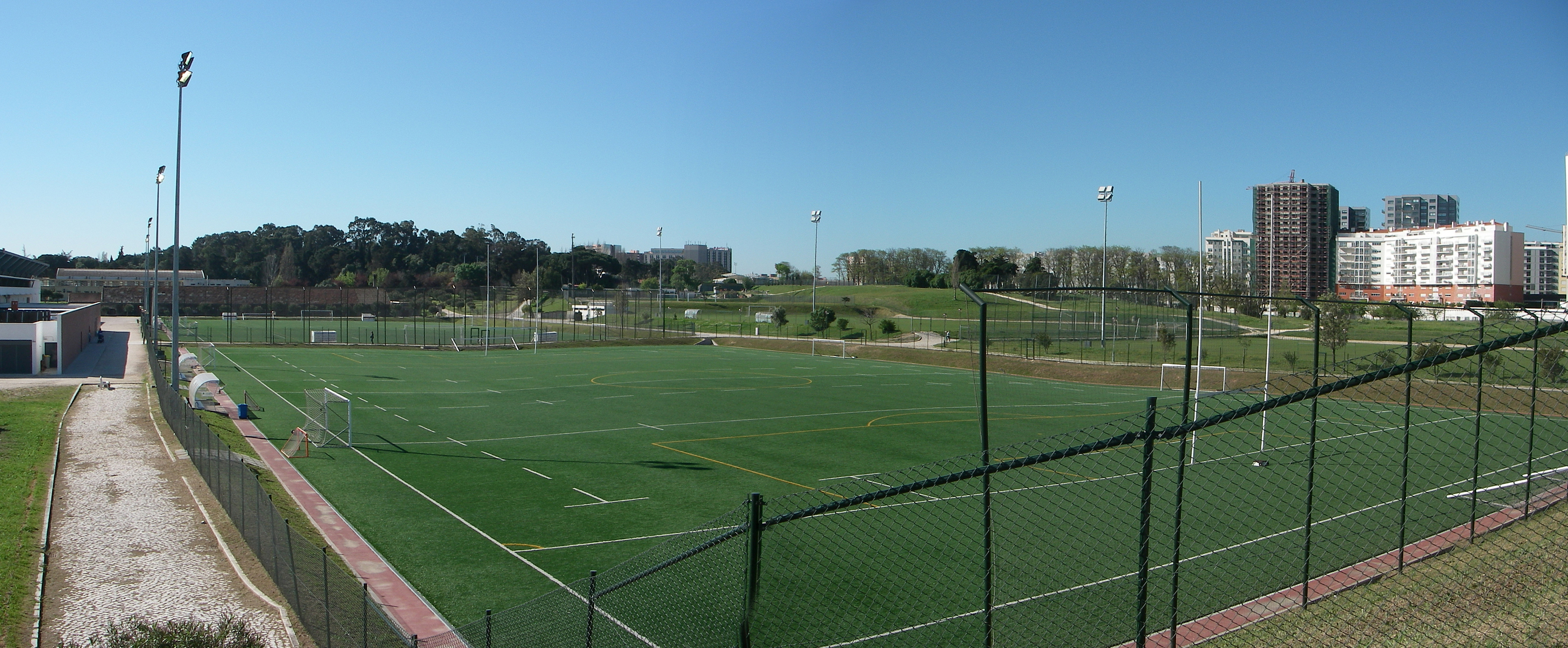 Mixed football/rugby fields of Estádio Universitário de Lisboa, sports complex of University of Lisbon.